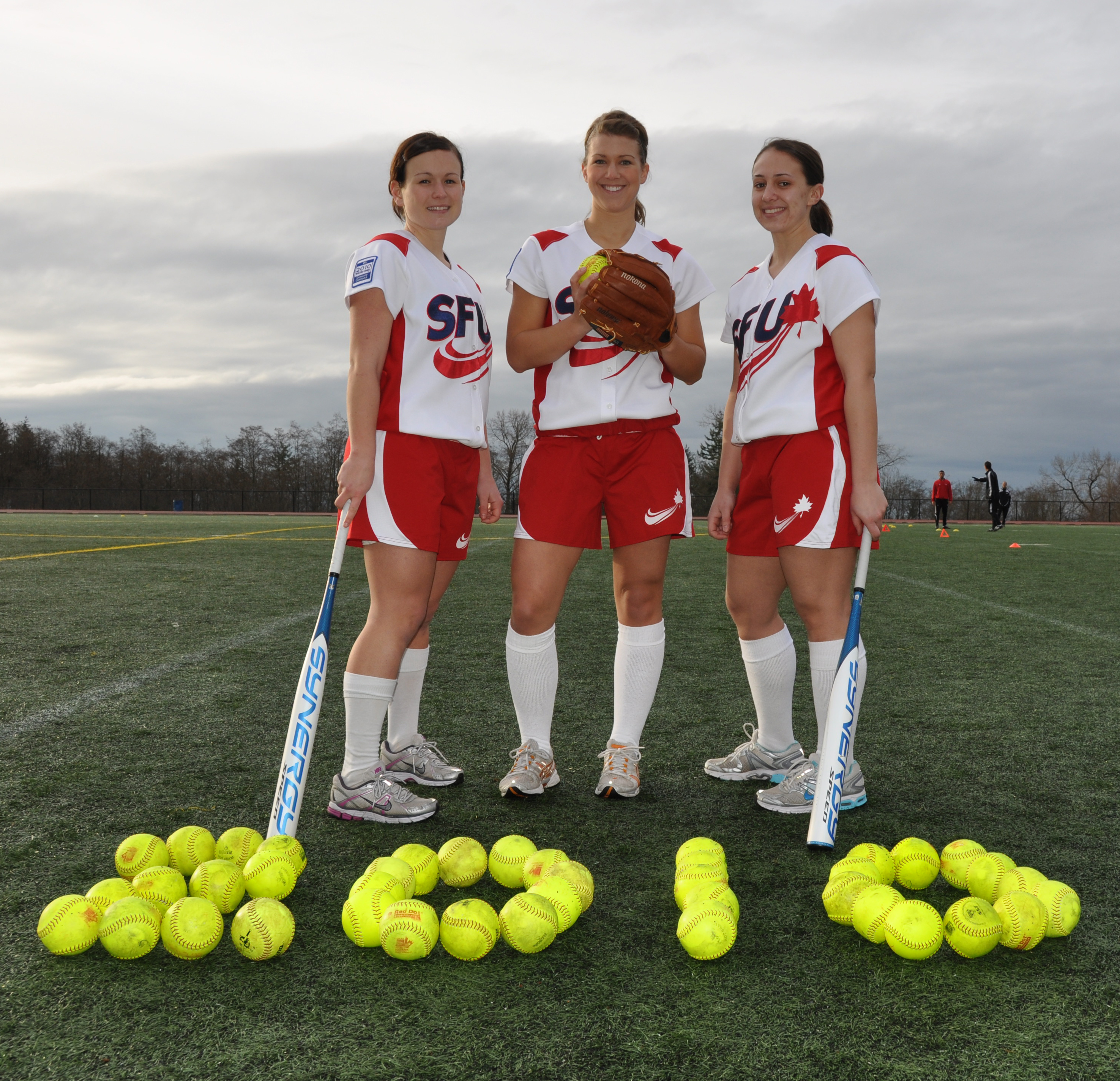 SFU Clan womens softball players sport new patch on 2010 jerseys. L - Carly Moir C - Trisha Bouchard R - Stefani Durrant with the Vancouver 2010 Community Contributor logo from SFU